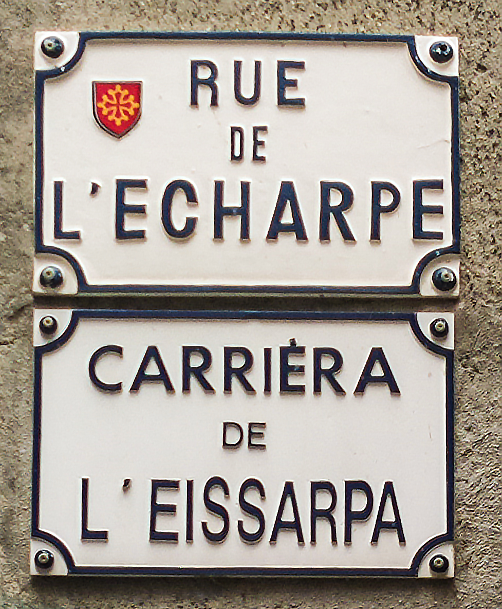 Rue de l'Écharpe, in Toulouse - Street name sign. They have the particularity of being: in French and Occitan.